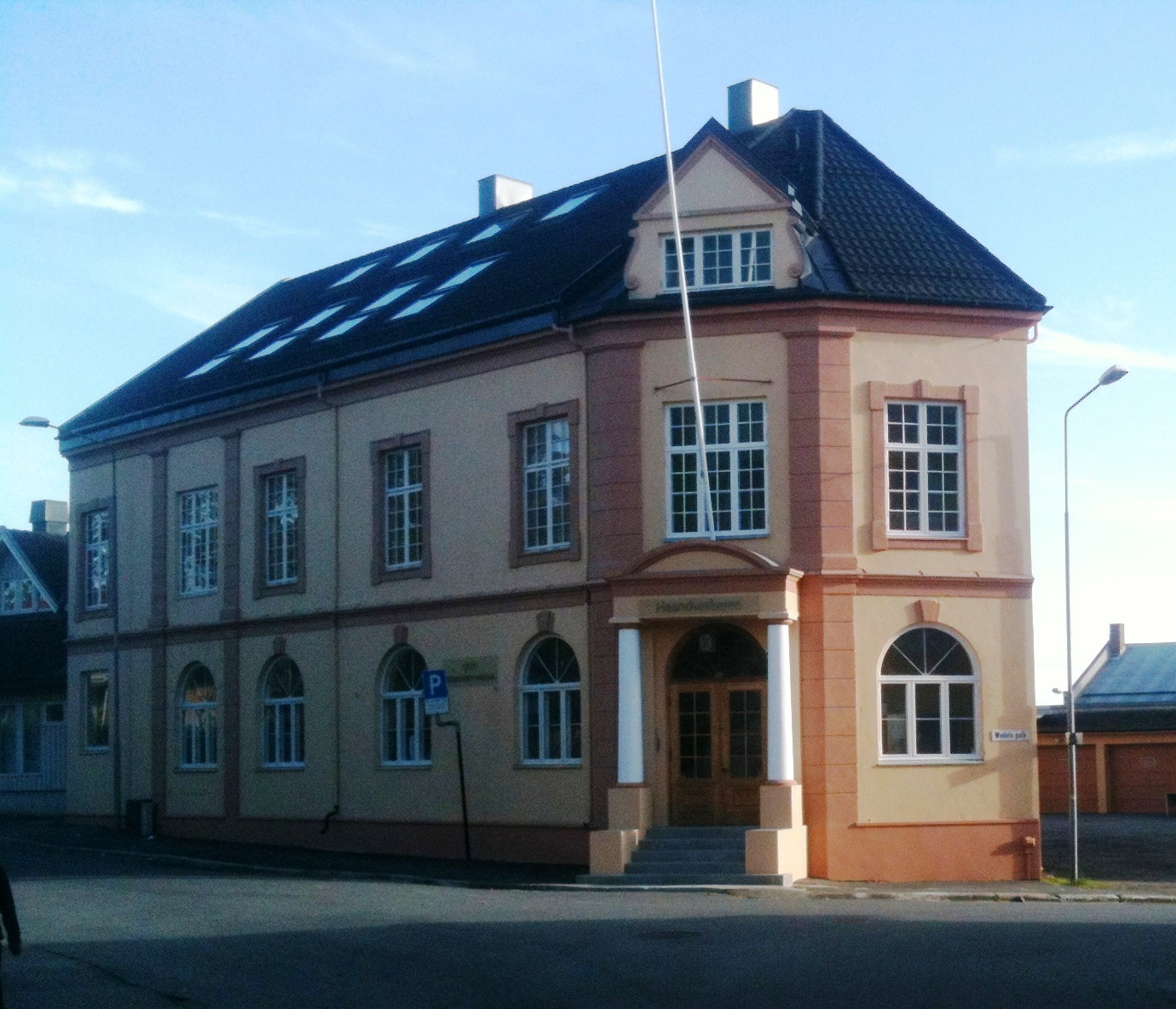 Haandverkeren guilds house in Hamar, Norway